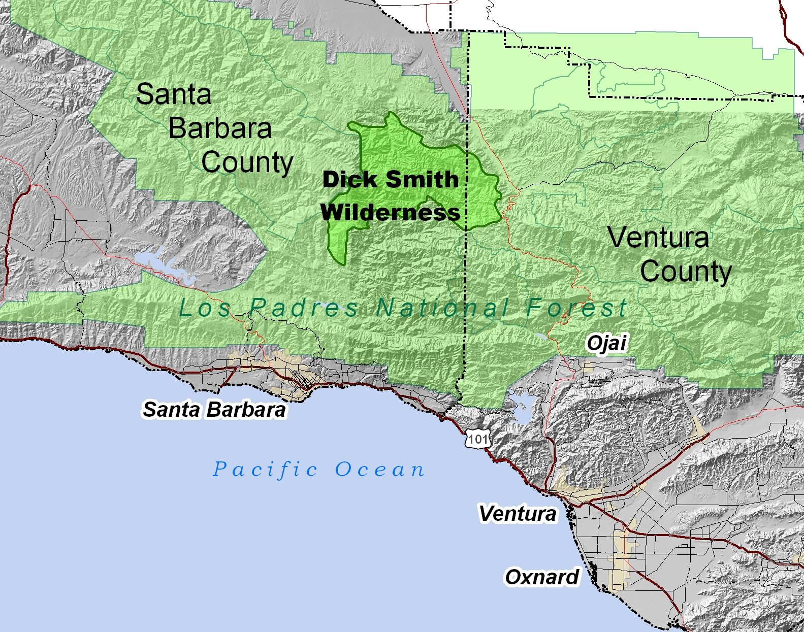 Location map for the Dick Smith Wilderness — in the Los Padres National Forest, Southern California. Located in the mountains of eastern Santa Barbara County, with a portion in Ventura County. All data included on this map is in public domain; created by User:Antandrus using ArcGIS 9.2. Map projection: California State Plane, Zone V, NAD 83.